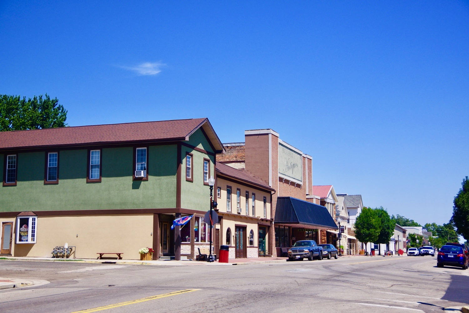 Businesses along Commerce Street (State Route 503) in Lewisburg, Ohio, United States.